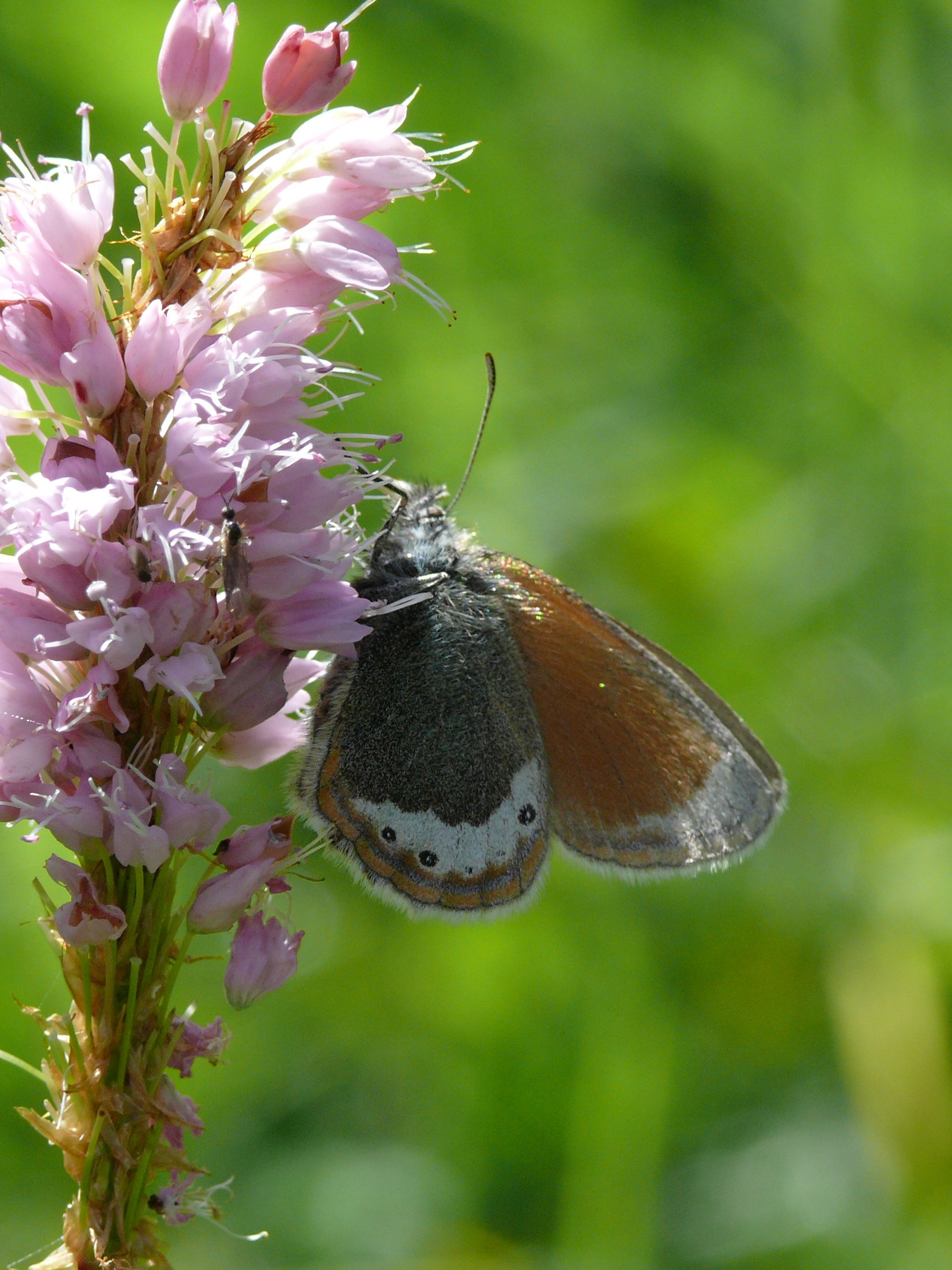 Alpine Heath ssp. gardetta, Bavaria, Ammergebirge